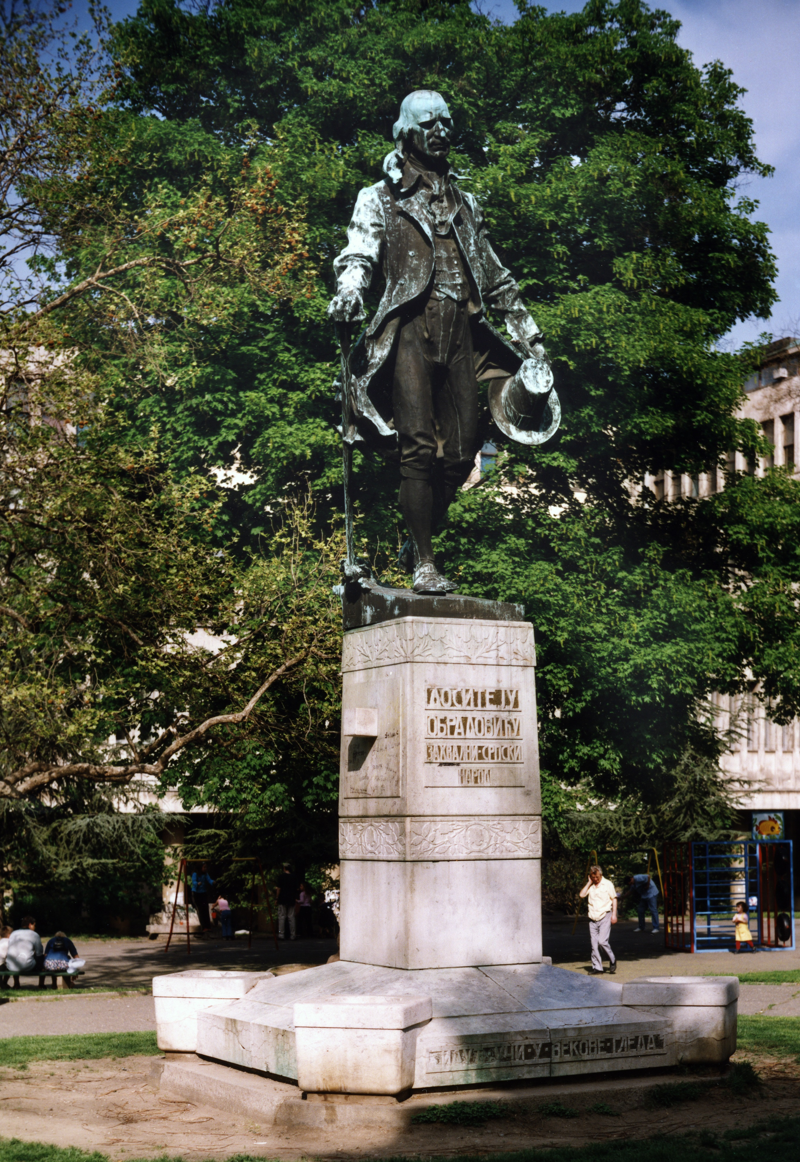 Споменик Доситеју Обрадовићу